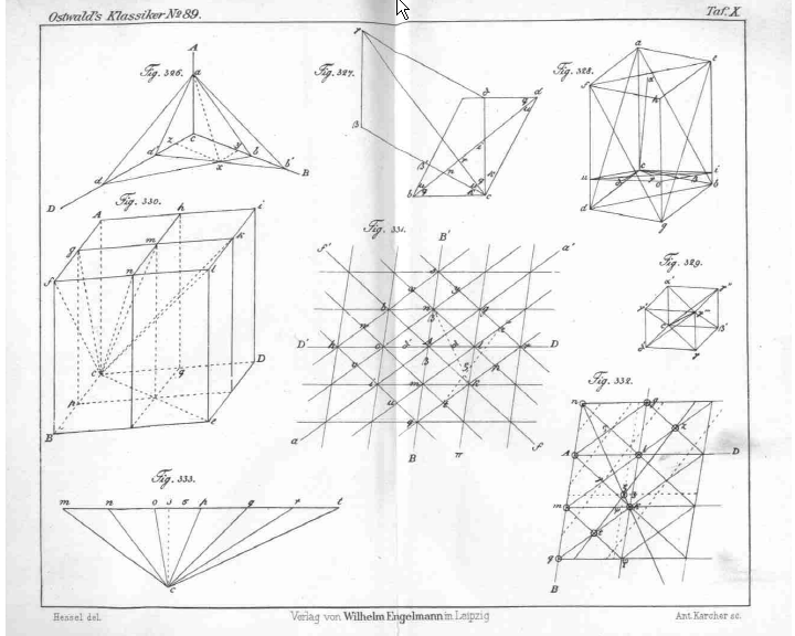 Some of Hessel's drawings from 1830, which were reproduced in 1897.